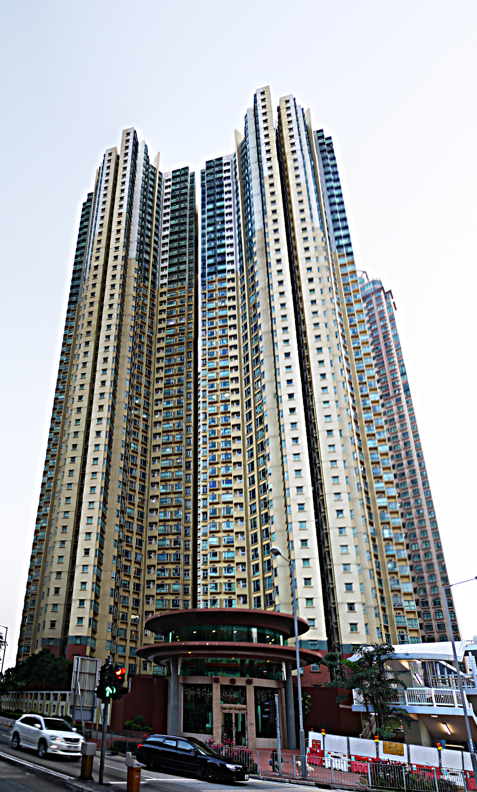 Bel-air highrise